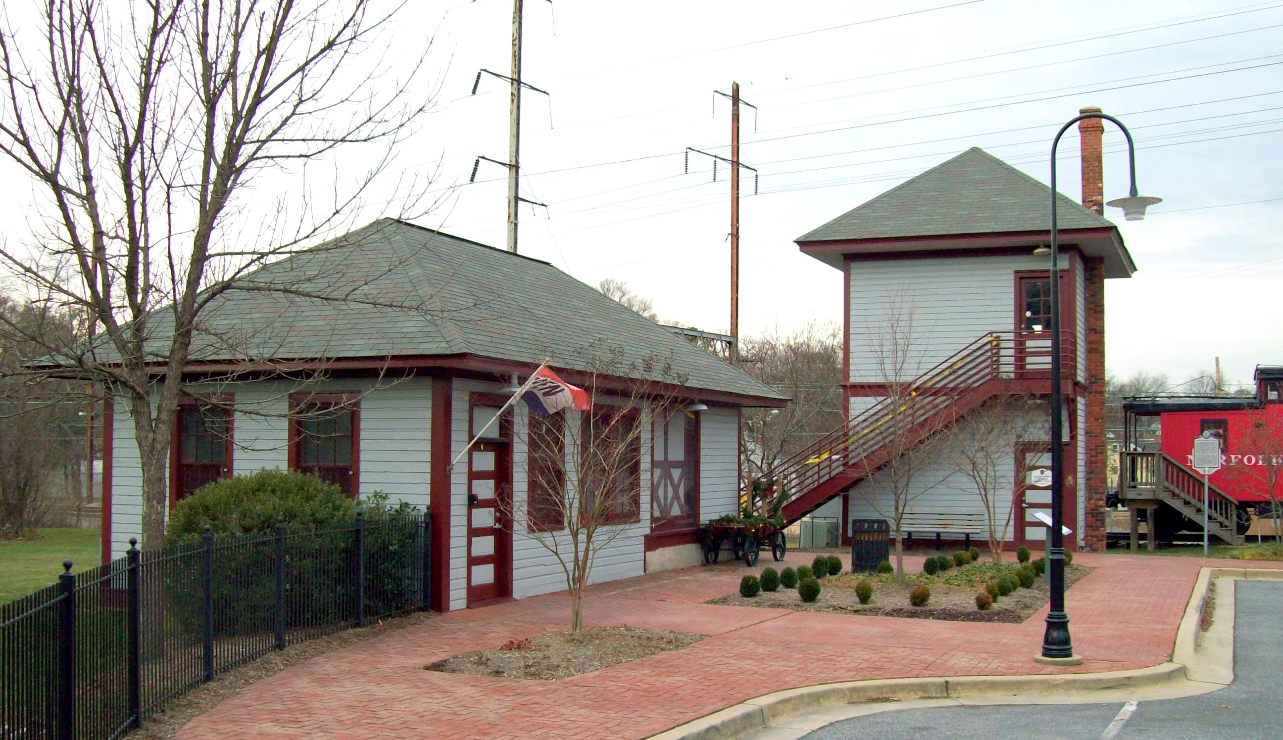 Bowie Railroad Buildings - Tower and Depot, Bowie, Maryland, December 2008